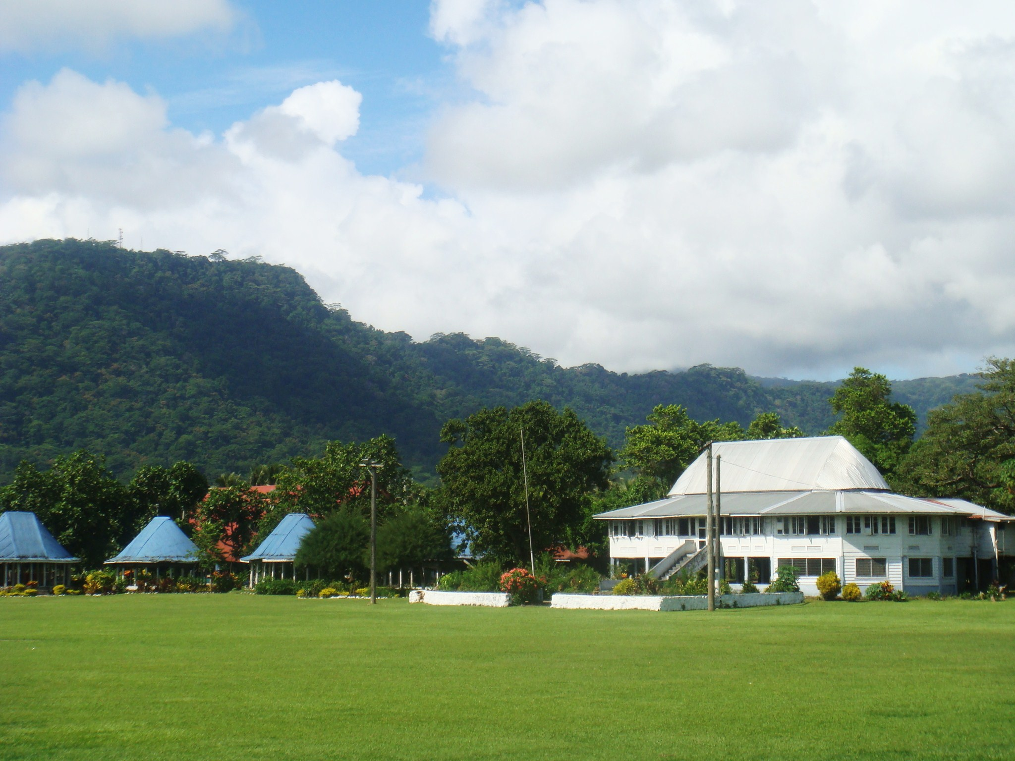 Maota (white house) chief residence at Lepea village, Samoa, home of Samoa's first Prime Minister. View of Mount Vaea beyond, burial place of Robert Louis Stevenson. Gagana Samoa: Maota i Lepea ma Vaea i tua atu.